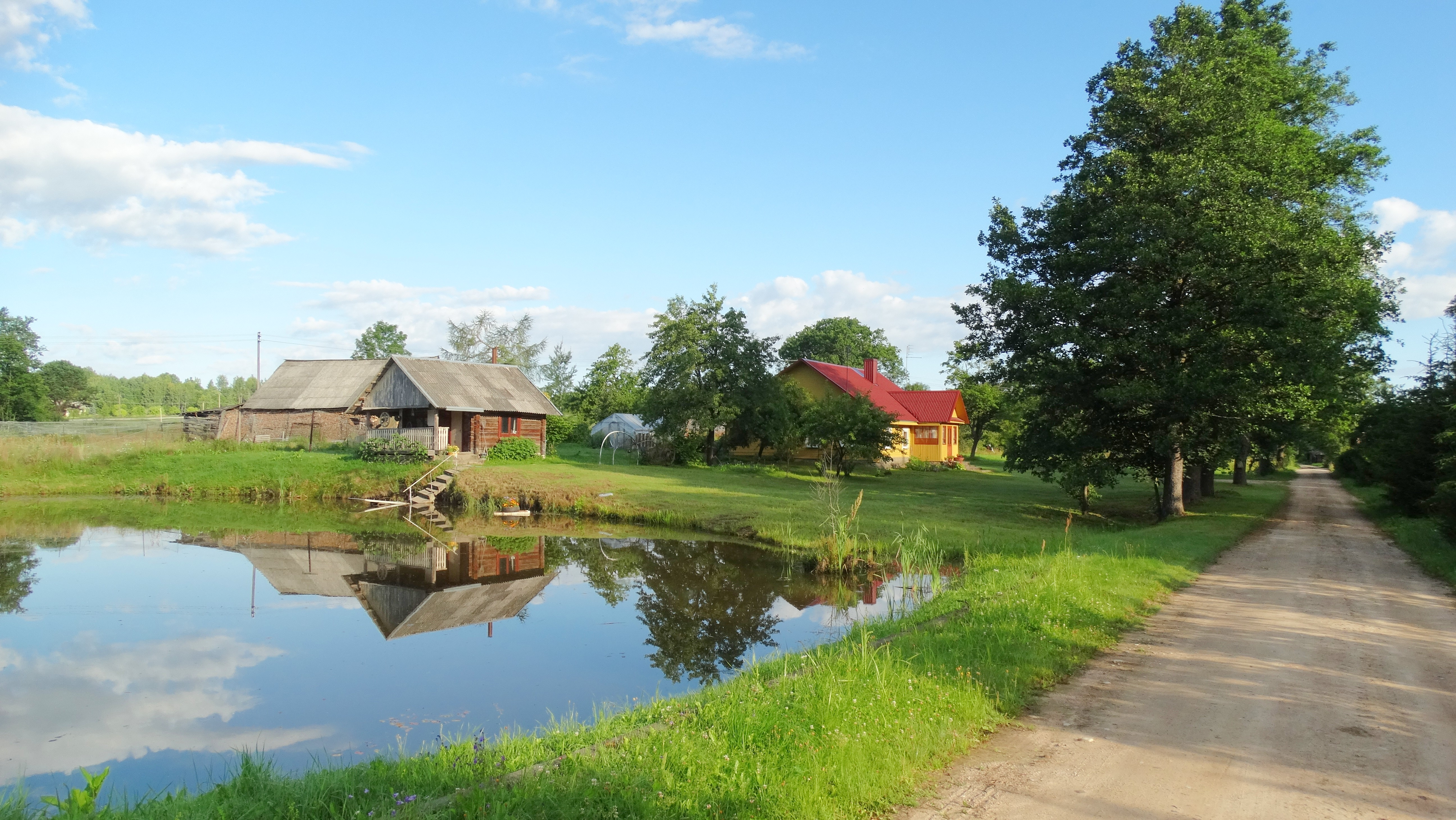 Kretuonys, Švenčionys District, Lithuania